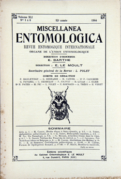 Front cover of the journal Miscellanea entomologica, Le Moult publisher